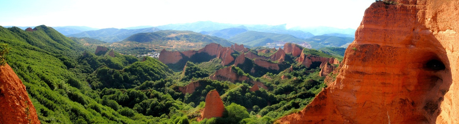 Panoramic view of the Medulas